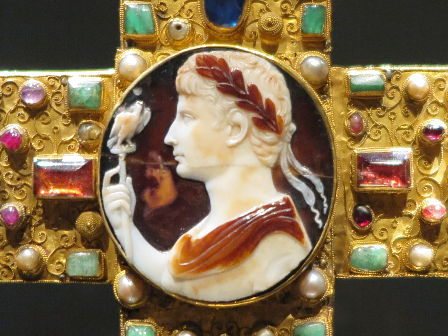 Cross of Lothair with Augustus cameo. The intersection of the cross is accented by a magnificent, three-layered sardonyx cameo. The slightly oval, antique cameo shows the turned to the left bust crowned with a laurel wreath of Emperor Augustus, who keeps an eagle scepter in his right hand.